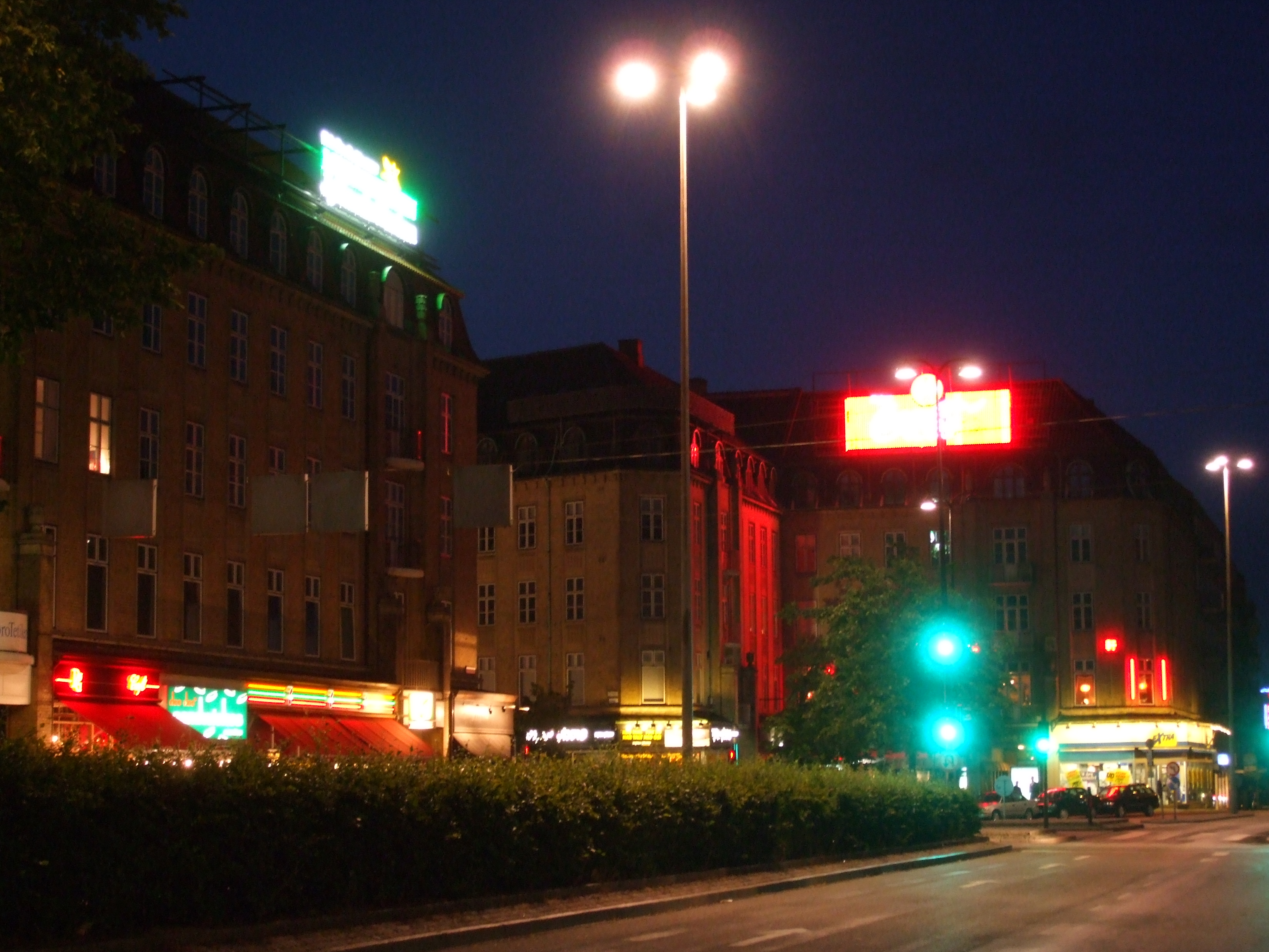 Square before the main railway station in Århus, Denmark